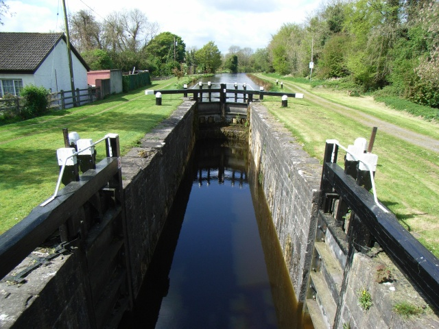 Royal Canal Lock No. 22, Killucan, Co. Westmeath Pictured from Heatherstown Bridge (which is also known as Riverstown Bridge).